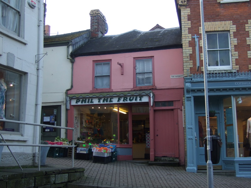 Fruiterer on The Pavement A few of old-fashioned style shops still hang on in this little paved area in the heart of Hay although on a closer look the goods for sale tend to be aimed at a better-heeled clientele that would be expected in such a small rural community.